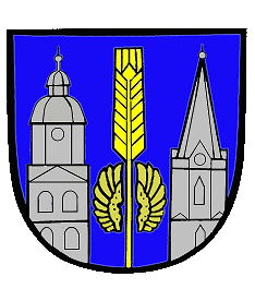 Coat of Arms of Friedrichswerth